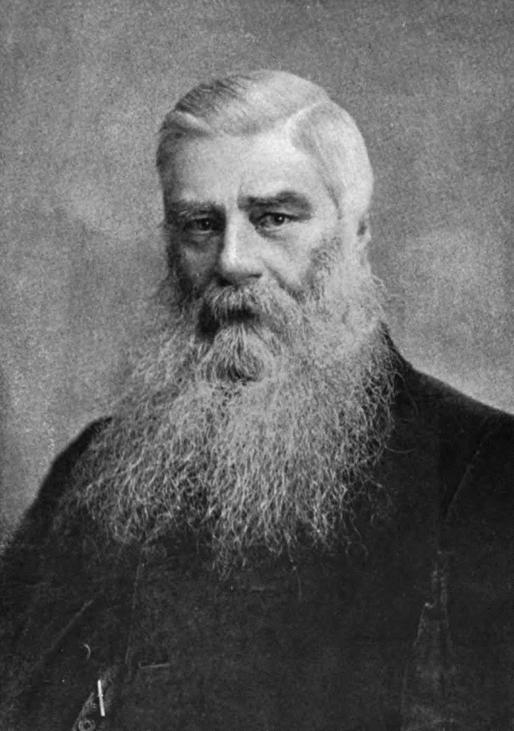 G. A. Henty.